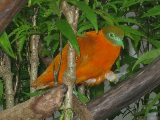 January 14, 2006. Korotogo, Fiji. Kula Eco-Park. Orange dove, Ptilinopus victor. This was a rescued chick that was just starting to get flight feathers.